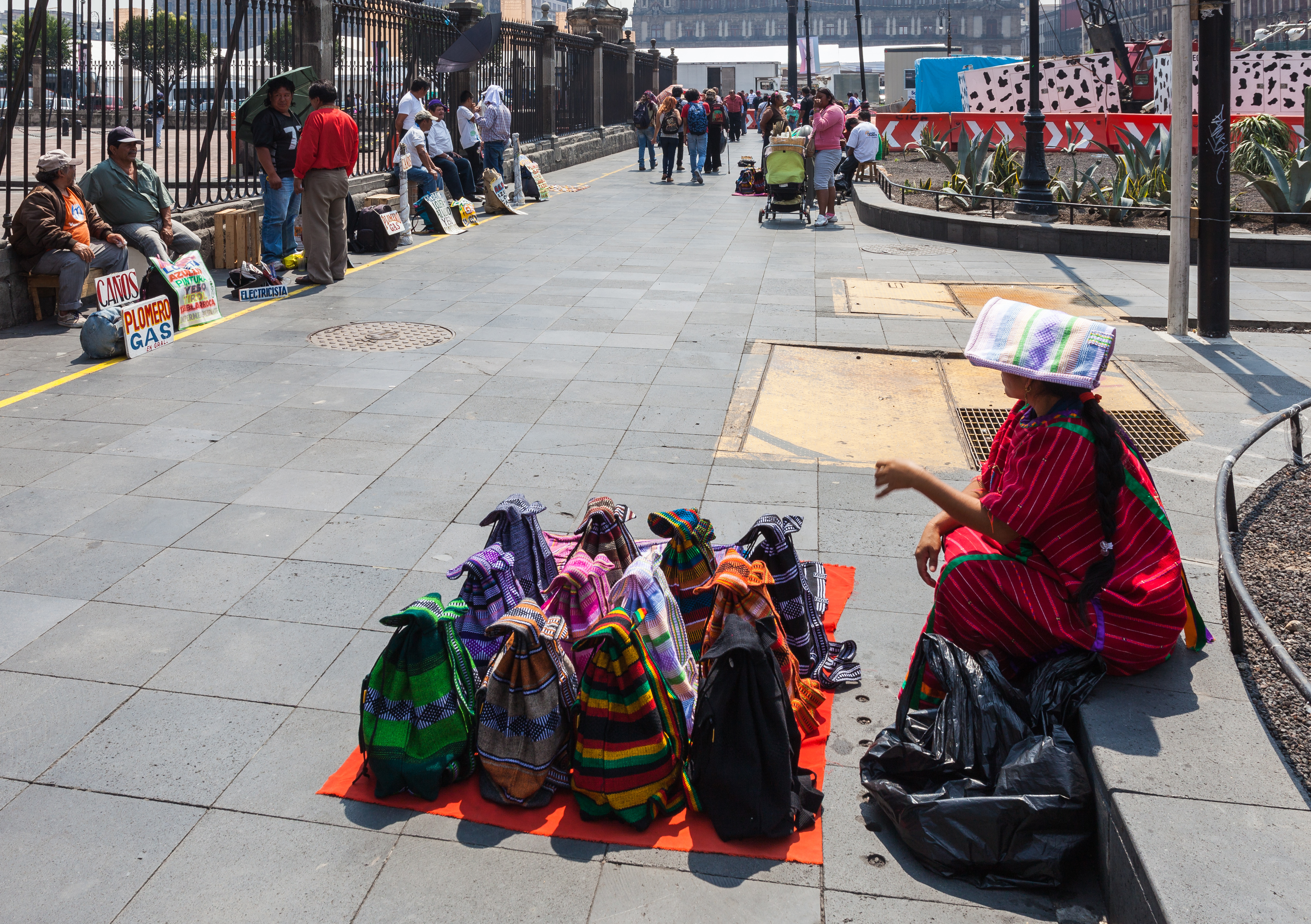 Sellers at the Metropolitan Cathedral, Mexico City, Mexico